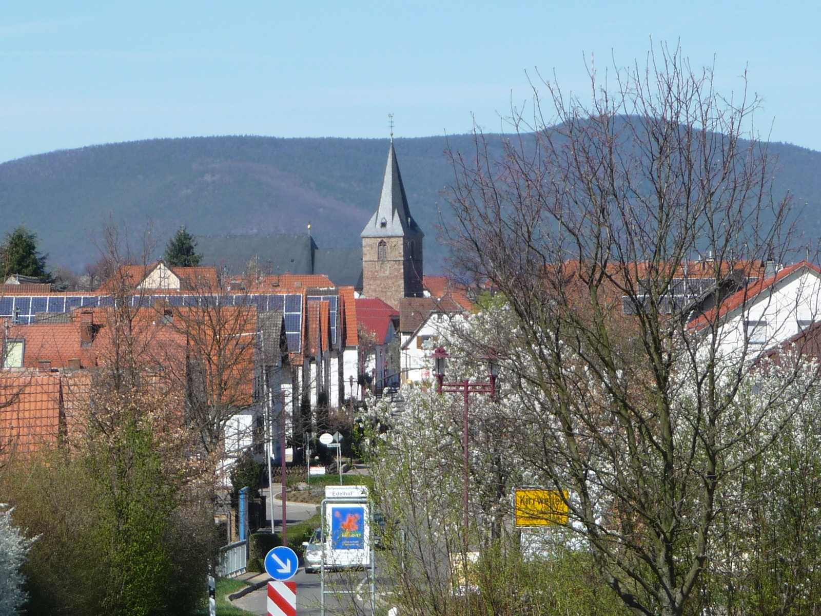 Kirrweiler in Rhineland-Palatinate, Germany